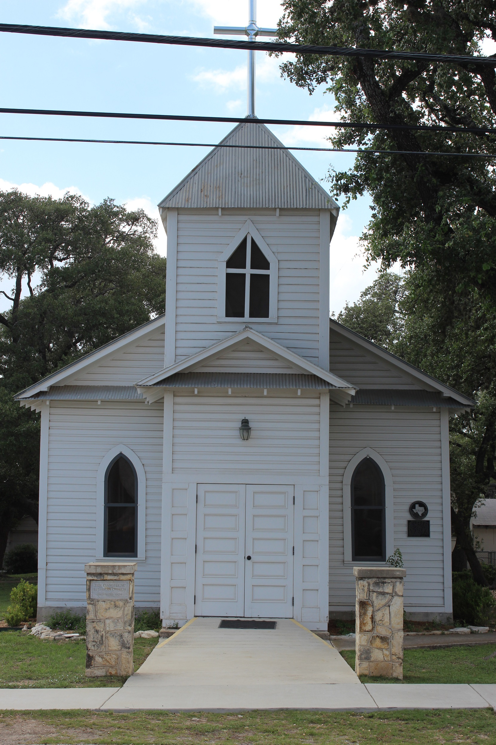 The Zion Lutheran Church in Helotes, Texas, United States. The Carpenter Gothic style church was built in 1906 and designated a Recorded Texas Historic Landmark in 1997.